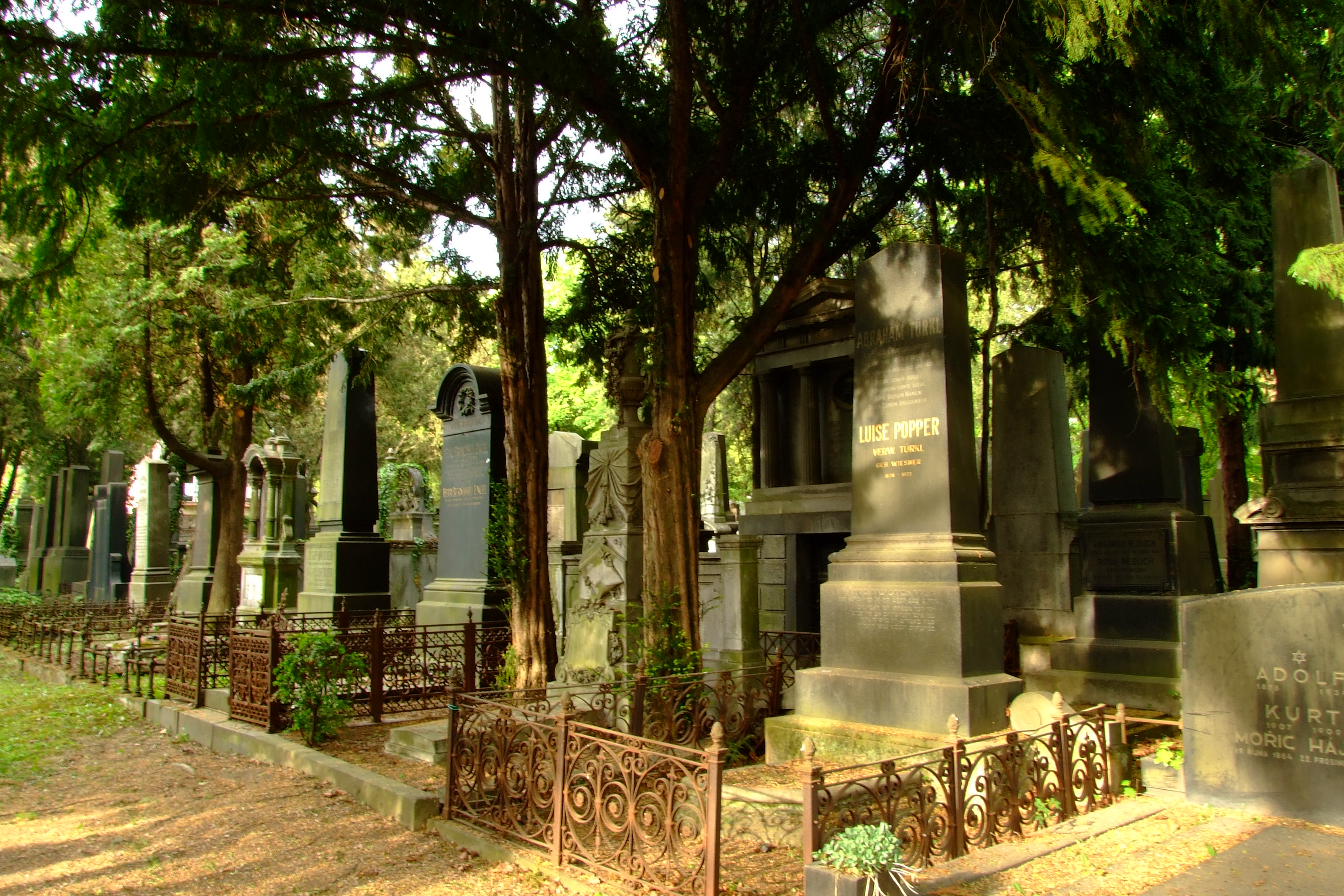 Jewish cemetery in Brno-Židenice